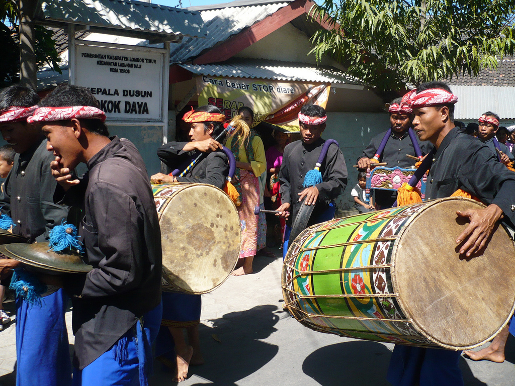 Gendang Beleq, music of Sasak, Lombok, Indonesia.